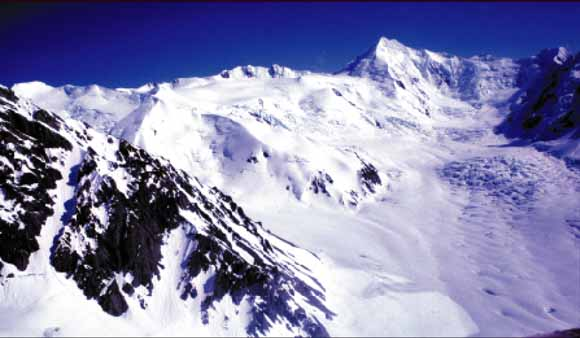 Hayes Volcano (Alaska, USA) is largely hidden underneath the ice and snow in the centre of this photo. It was mostly destroyed in a series of violent eruptions roughly between 3,500-3,800 years ago.